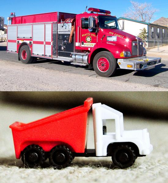 Toy truck and a real one